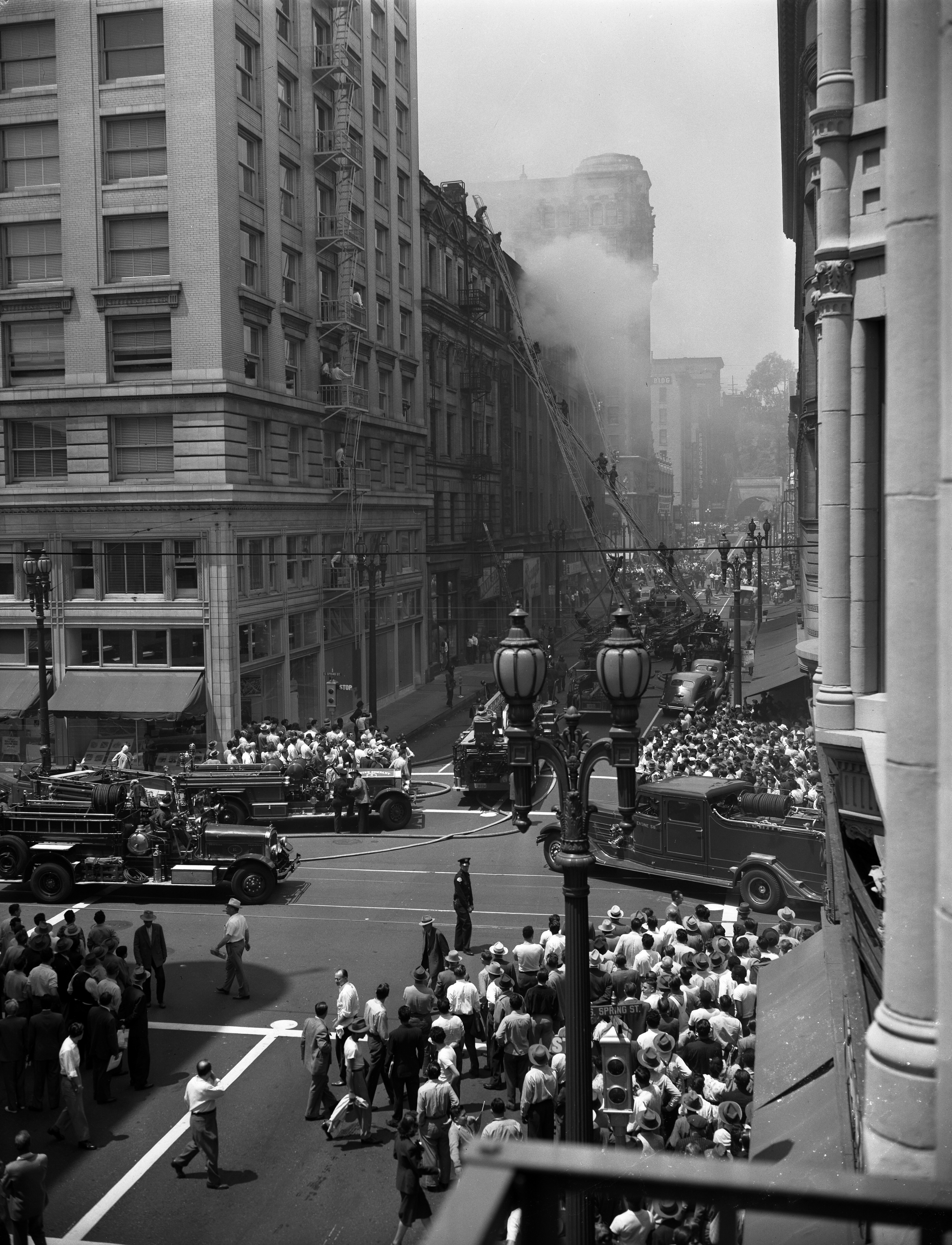 Title: Smoke billowing from ' as firefighters response and crowd watches in downtown Los Angeles, Calif., 1947 Published caption DOWNTOWN BUILDING SAVED--Smoke billows from Bradbury Building, Broadway and Third Stt., as fire broke out yesterday. Firemen quickly took control of situation. Photo was taken from Spring and Third Sts., looking toward Broadway.